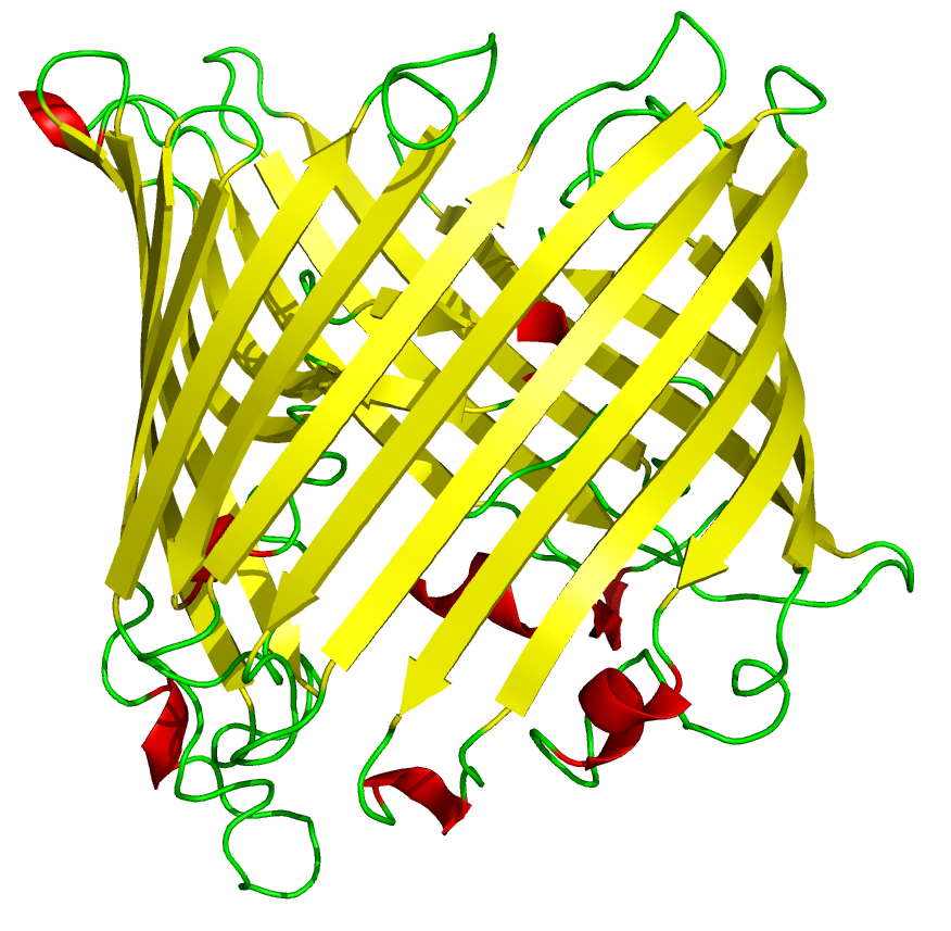 Side view of a single monomer of a sucrose porin protein from the bacterium Salmonella typhimurium, illustrating the canonical antiparallel beta barrel structure. Porins are transmembrane proteins that facilitate transfer of small molecules such as sucrose that are polar or charged and therefore cannot diffuse through the hydrophobic cell membrane.